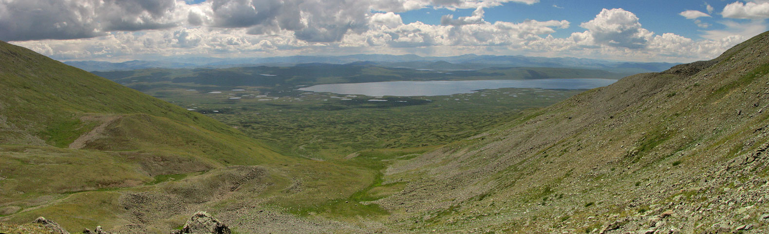 Lake Dzhulukul from Shashpal ridge